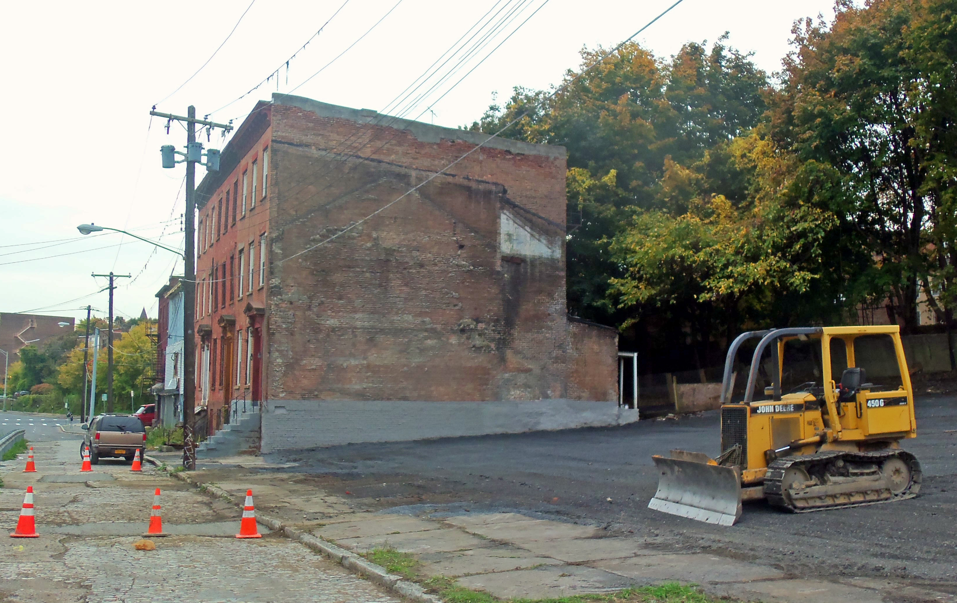 Site of recently demolished and cleared buildings, both contributing properties to the Broadway–Livingston Avenue Historic District, Albany, NY, USA. Compare with opposite angle view here, taken 15 months earlier.